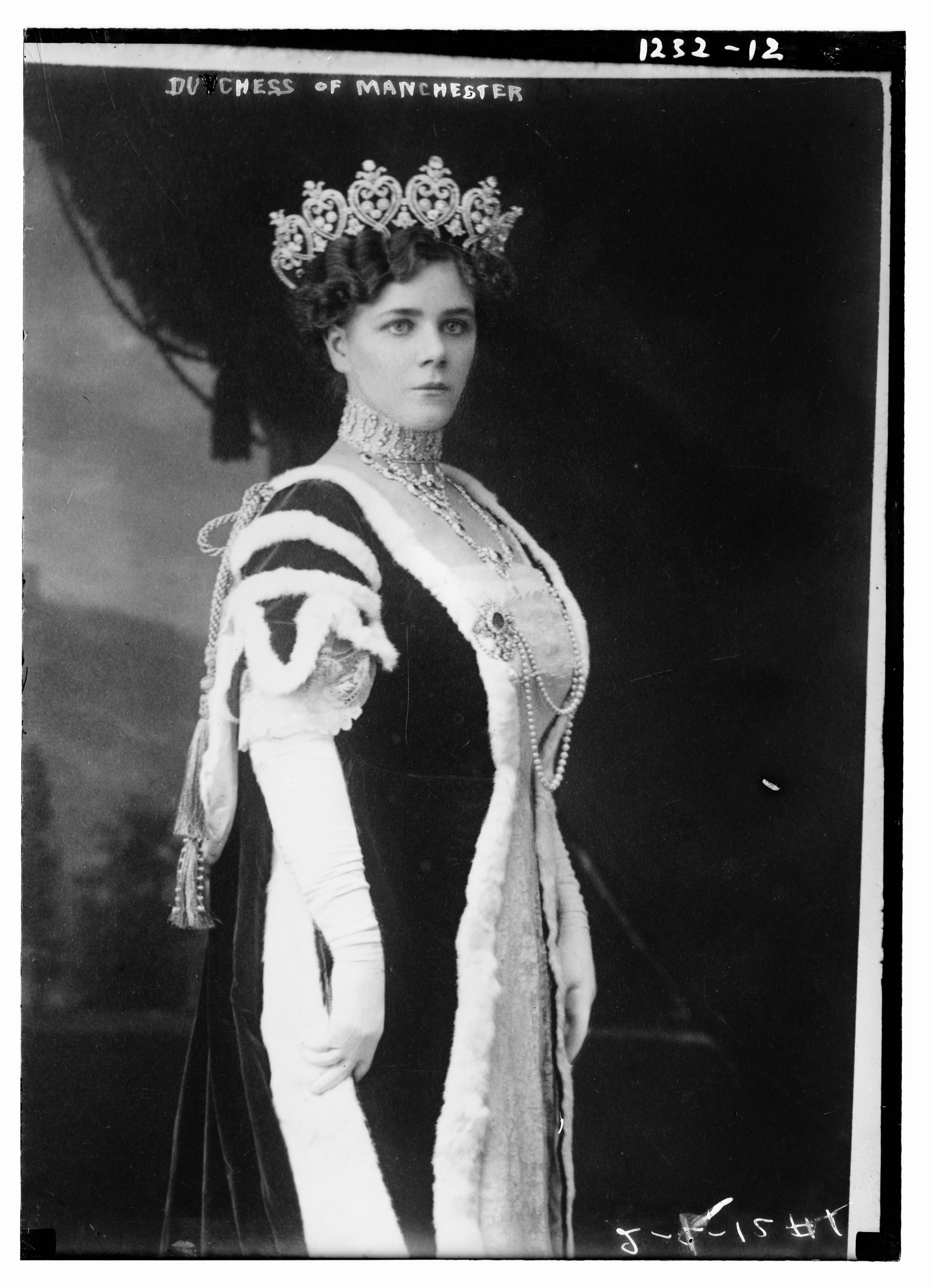 Title: Duchess of Manchester Abstract/medium: 1 negative : glass ; 5 x 7 in. or smaller.